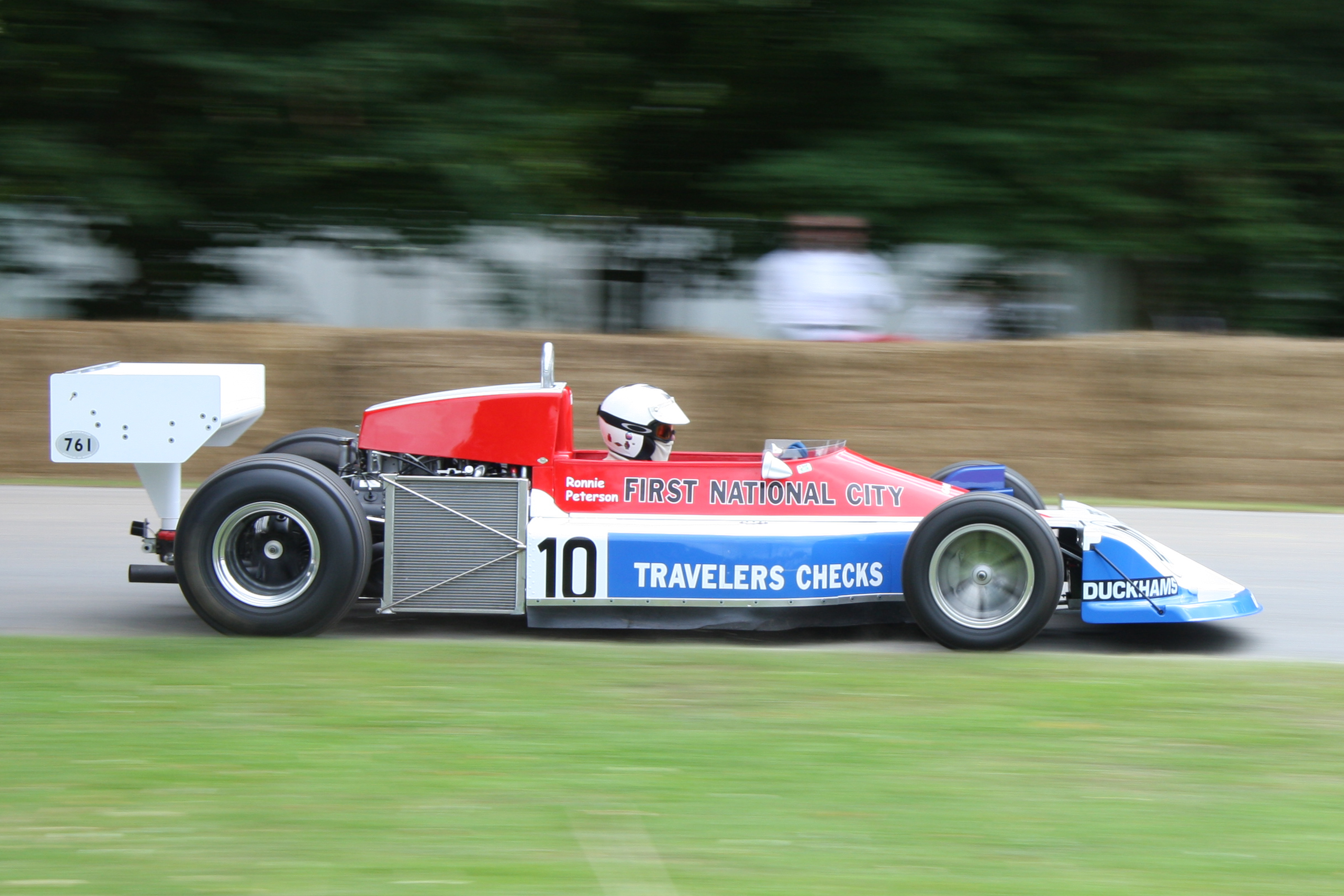 Ronnie Peterson's 1976 March 761 being demonstrated at the 2008 Goodwood Festival of Speed by Richard Attwood.